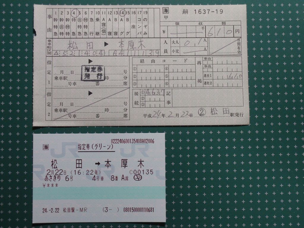 Reserved seat ticket of Limited express Asagiri No.6.